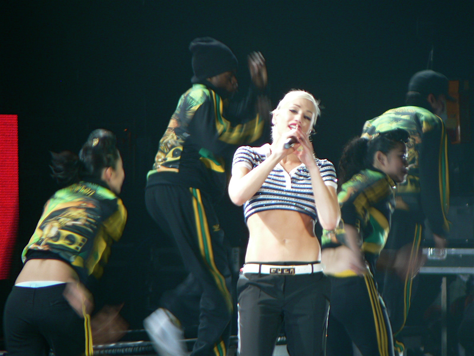 Gwen Stefani performing "Now That You Got It" at the Cynthia Woods Mitchell Pavilion in Houston, Texas, United Statesgwen's abs